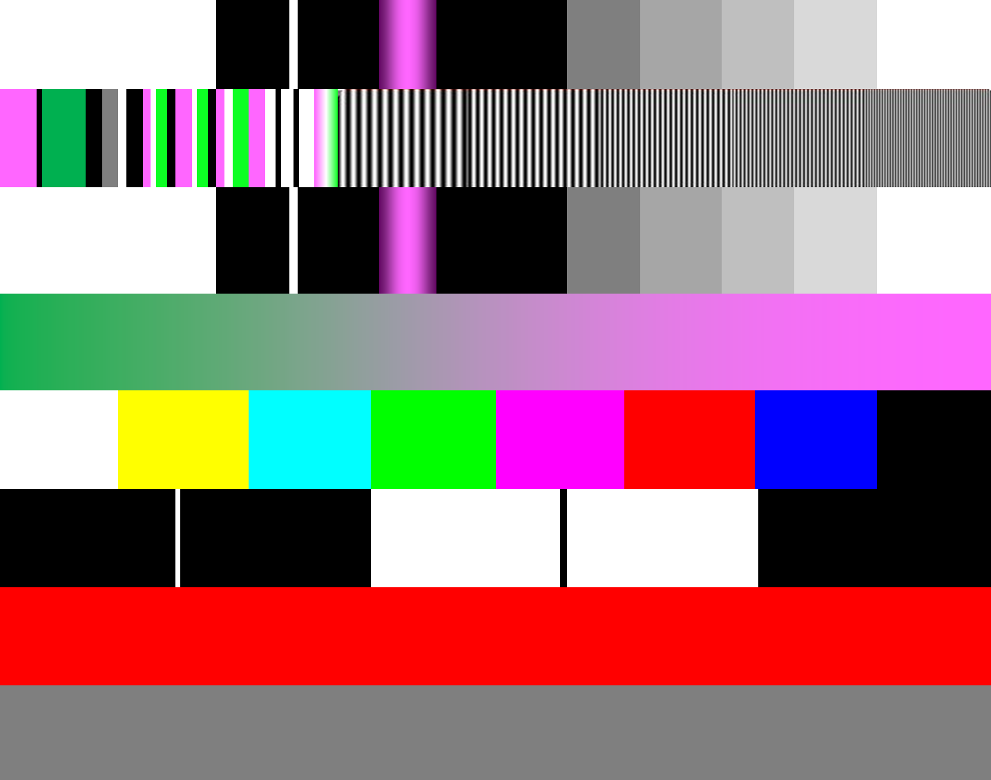 The test card of NTV7.